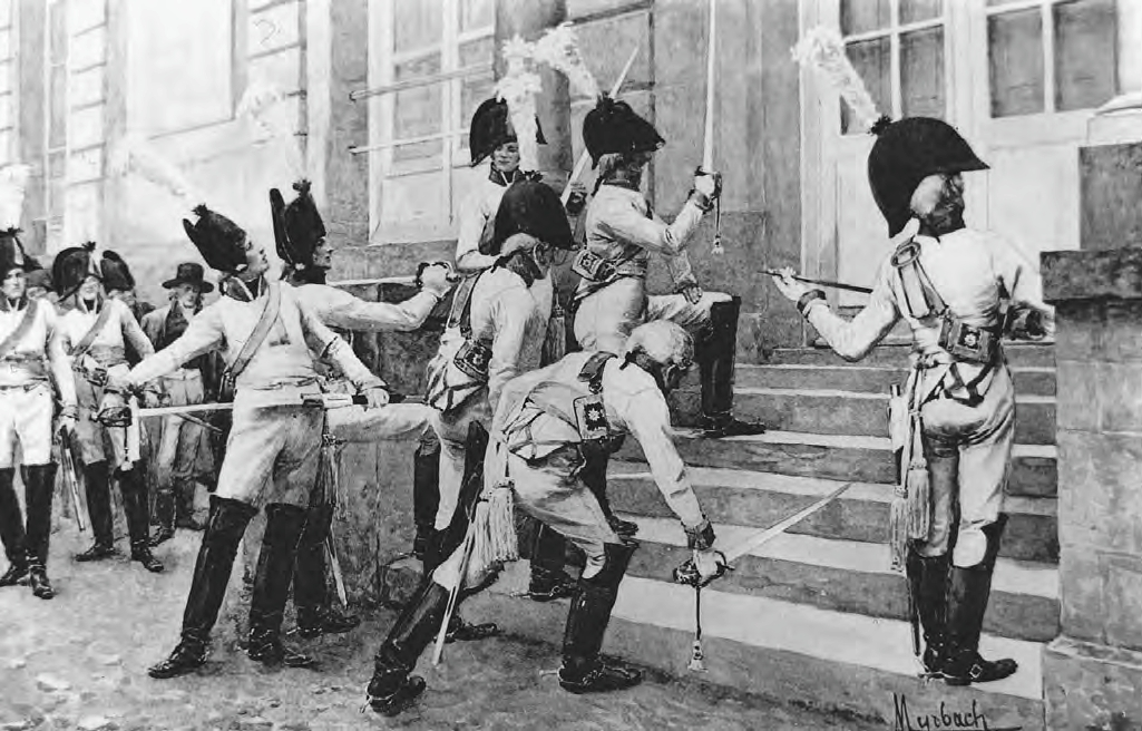 Officers of the élite Prussian Regiment Gensd'armes, wishing to provoke war, sharpen their swords on the steps of the French embassy in Berlin in the autumn of 1806.